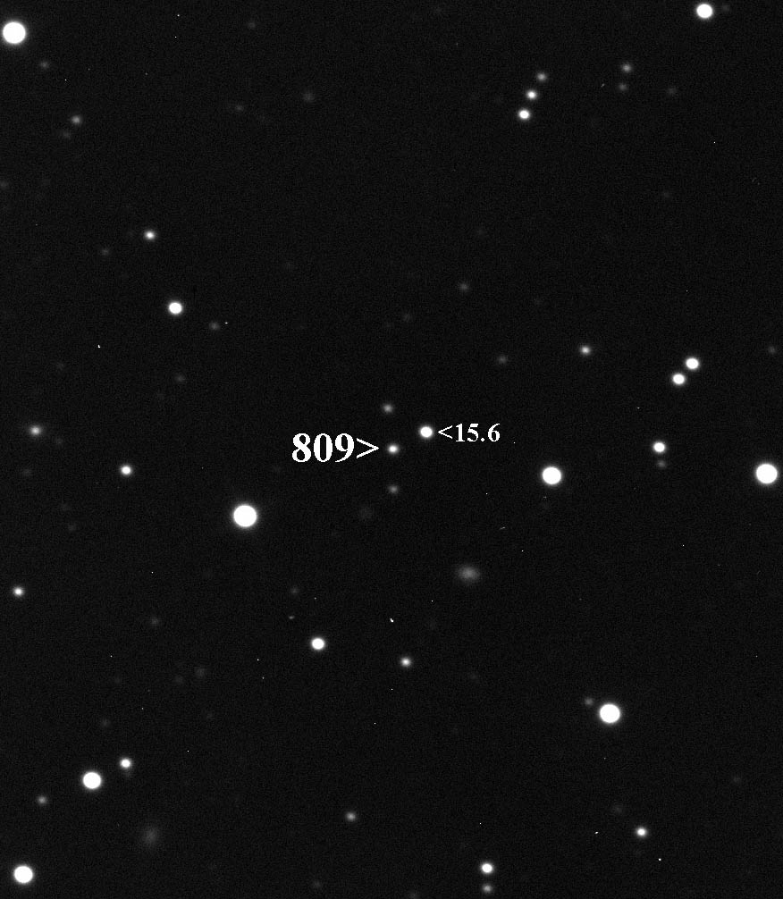 5 minute exposure of asteroid 809 Lundia with a 24" telescope. 809 Lundia is about apparent magnitude 16.6 in this image taken at 2009-10-29 10:00 UT. The star to the upper right of Lundia is magnitude 15.6. Lundia was 2.2AU from the Earth. Photometric observations show that Duponta is a binary system.